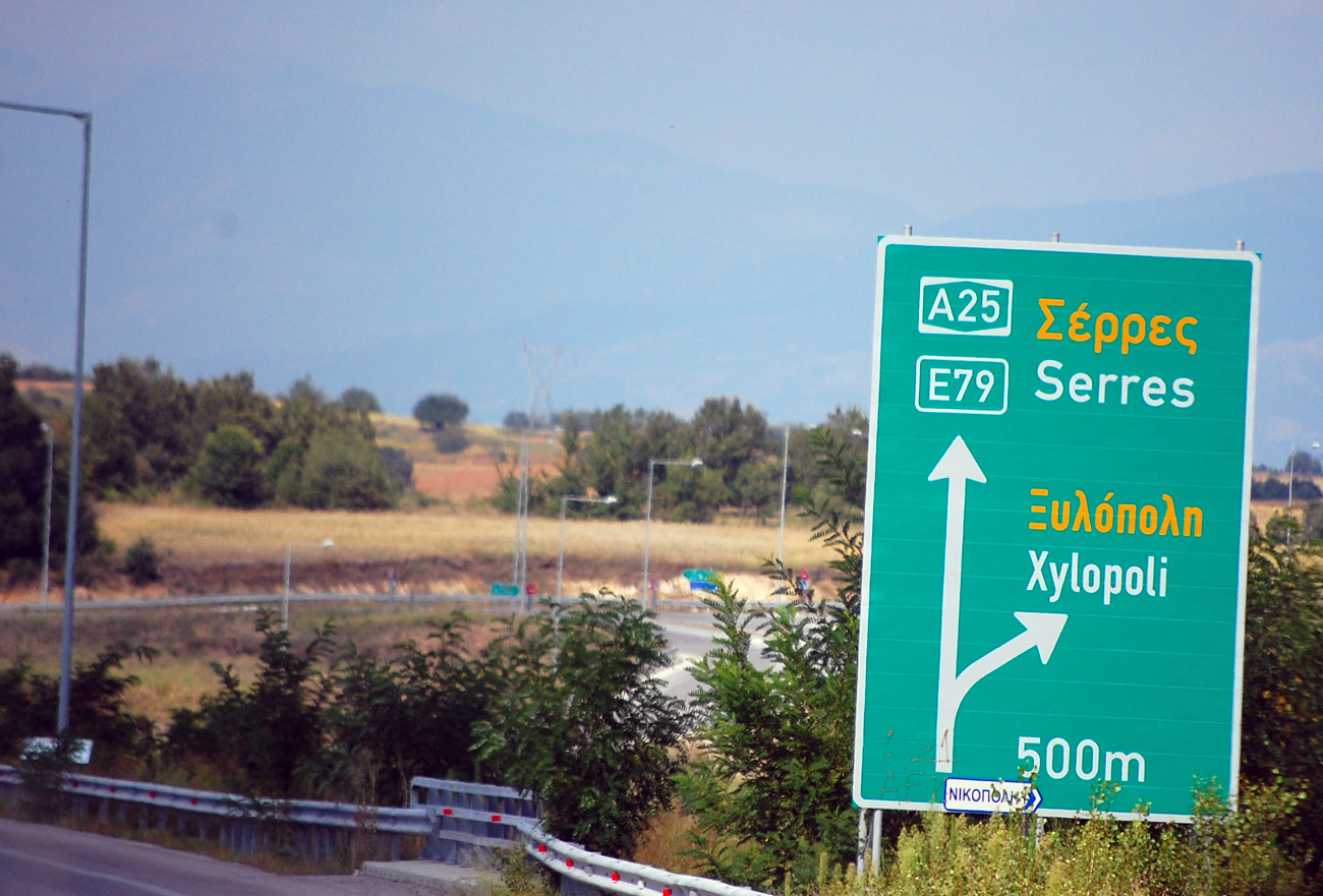 A25 highway in Greece near Xylopoli